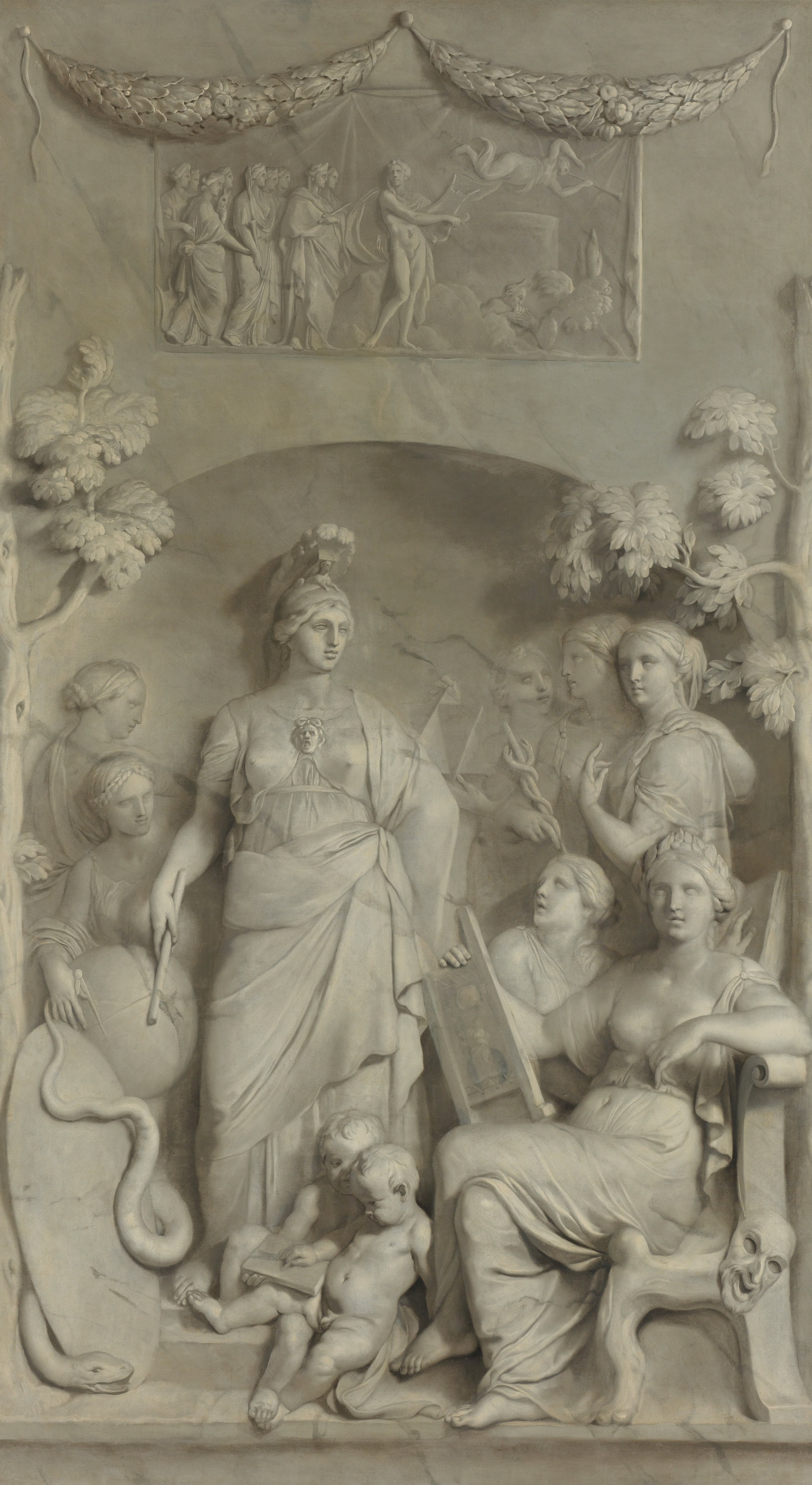 Allegory of the Sciences. Part of a series of five allegories painted between 1675 and 1683 for the house of Philips de Flines, Herengracht 164, Amsterdam, known as ‘Messina’. The other allegories are File:Gerard de Lairesse 003.jpg (Wealth), File:Gerard de Lairesse 004.jpg (Charity), File:Gerard de Lairesse 005.jpg (Art) and File:Gerard de Lairesse 006.jpg (Fame).